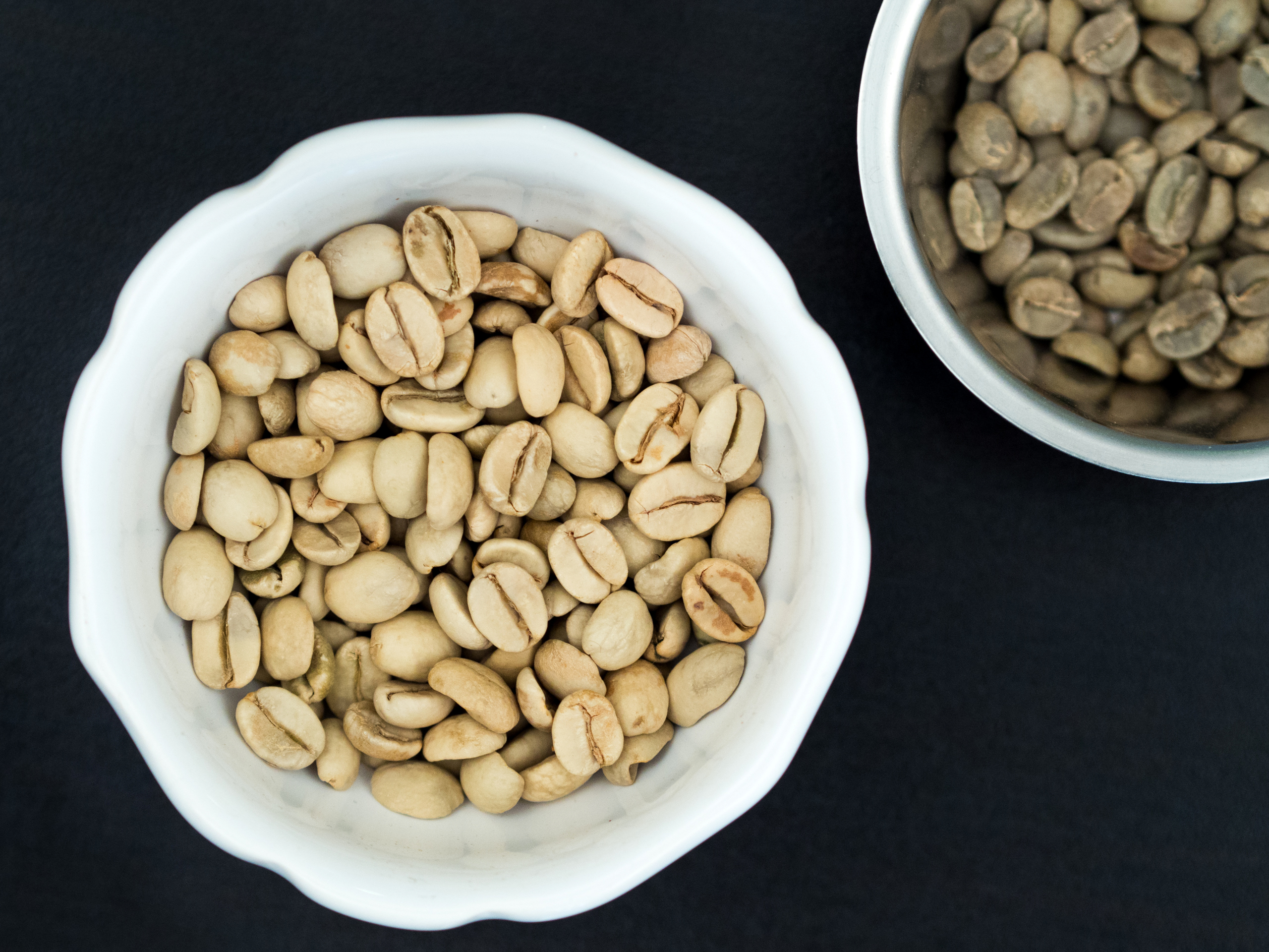 Unroosted Monsooned Malabar arabica beans start out with a similar colour and texture as the green Yirgachefe beans in the upper corner, but develop their unique appearance and flavour after having been exposed to the moist monsoonal winds of the Malabar coast. The photo was made at Koffiebranderij BOON, a small coffee roaster in The Hague, Netherlands.